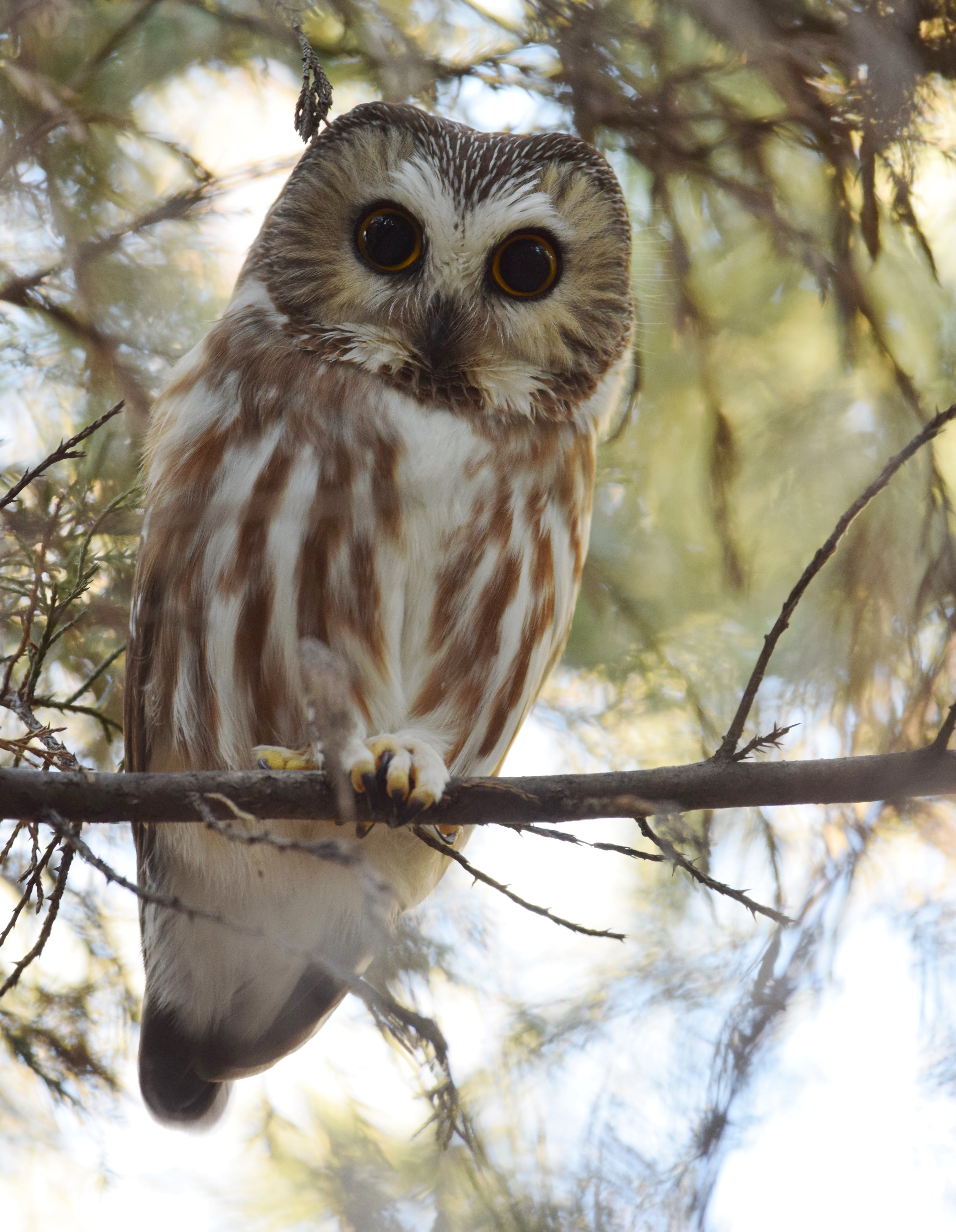 Near Edina, MO 12/28/16